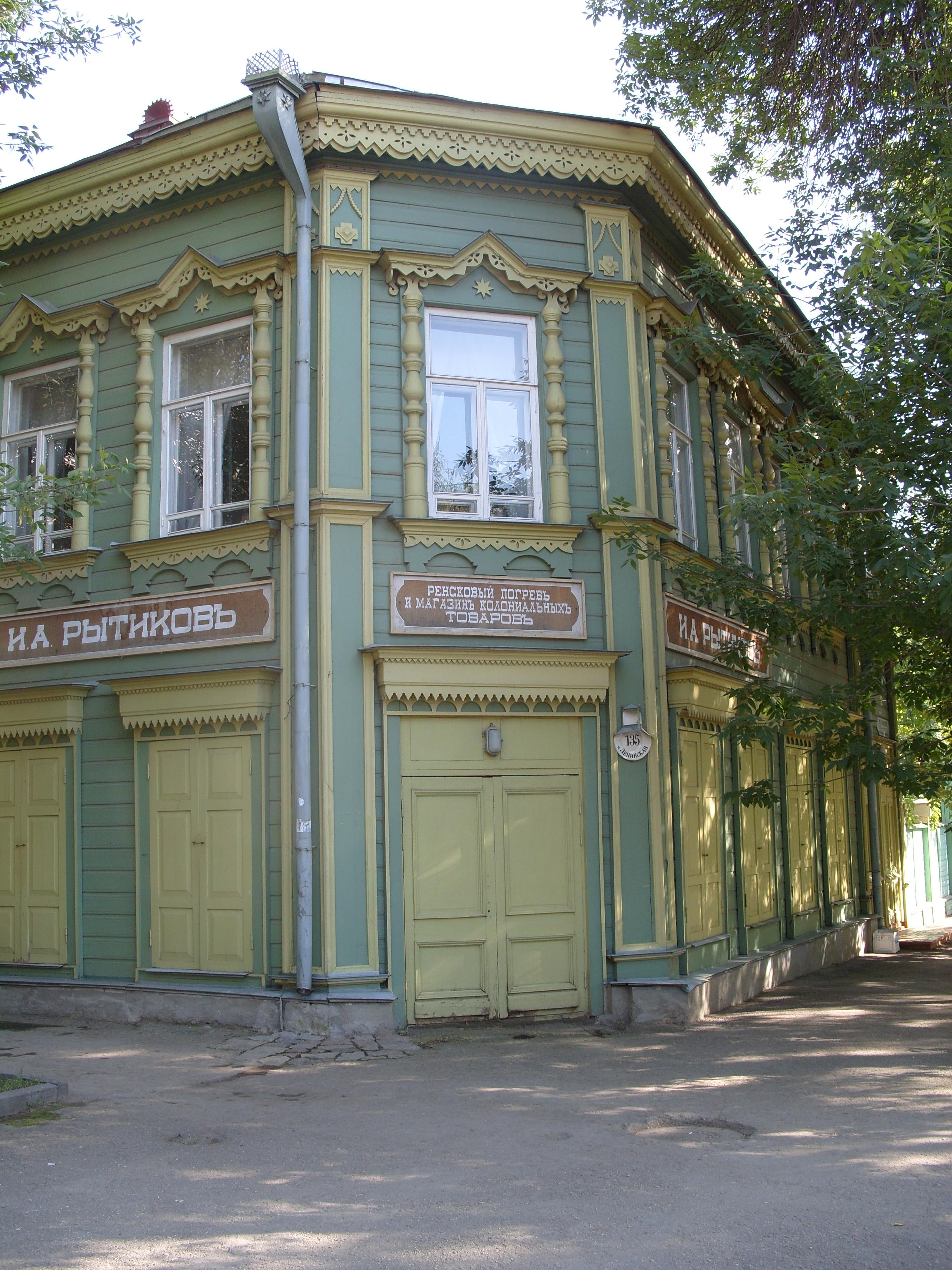 Lenin's house in Samara